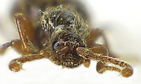 Scydmaenus tarsatus from Hungary coll. 1992-05-09